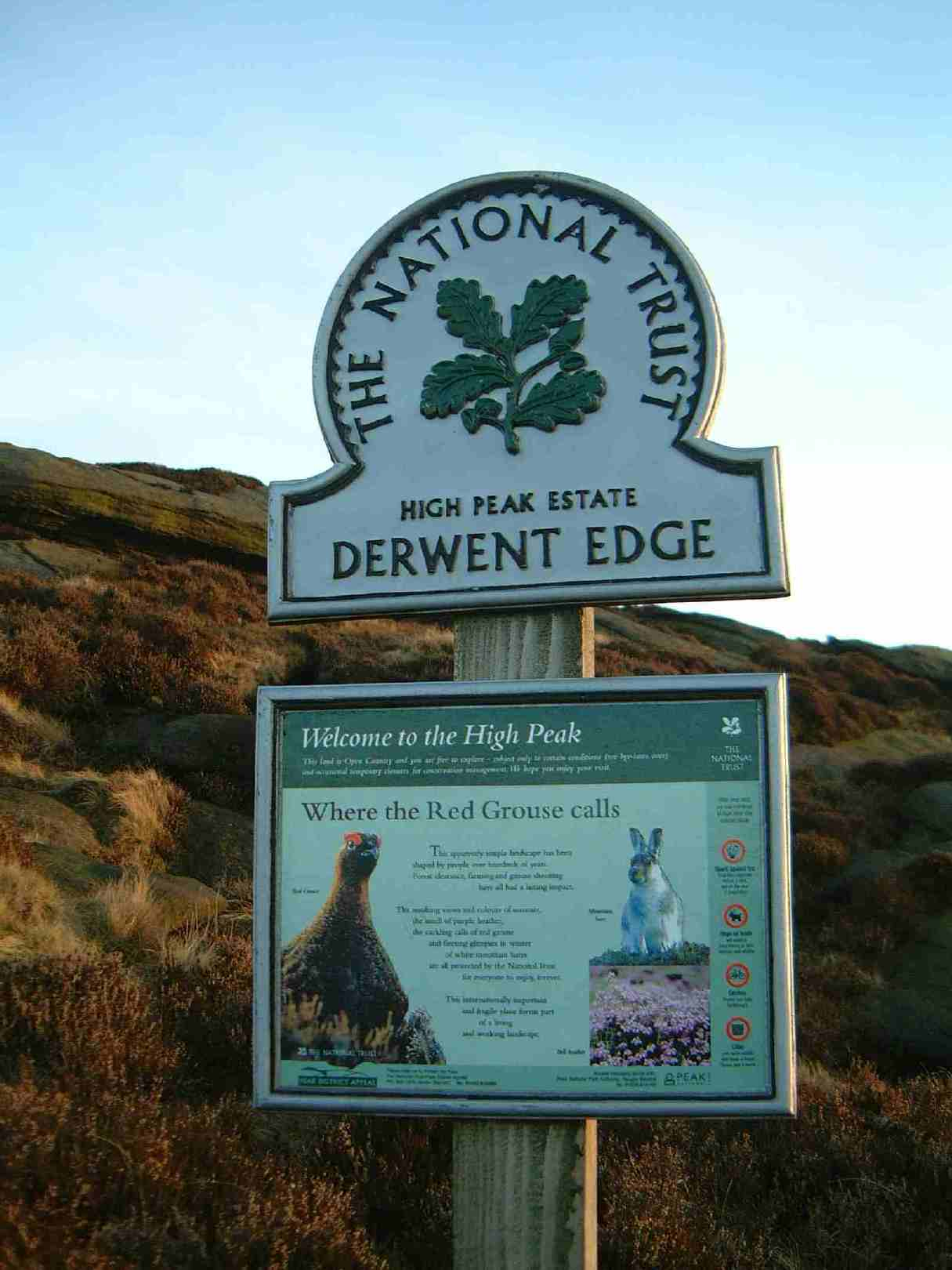 Personal picture taken by Mick Knapton